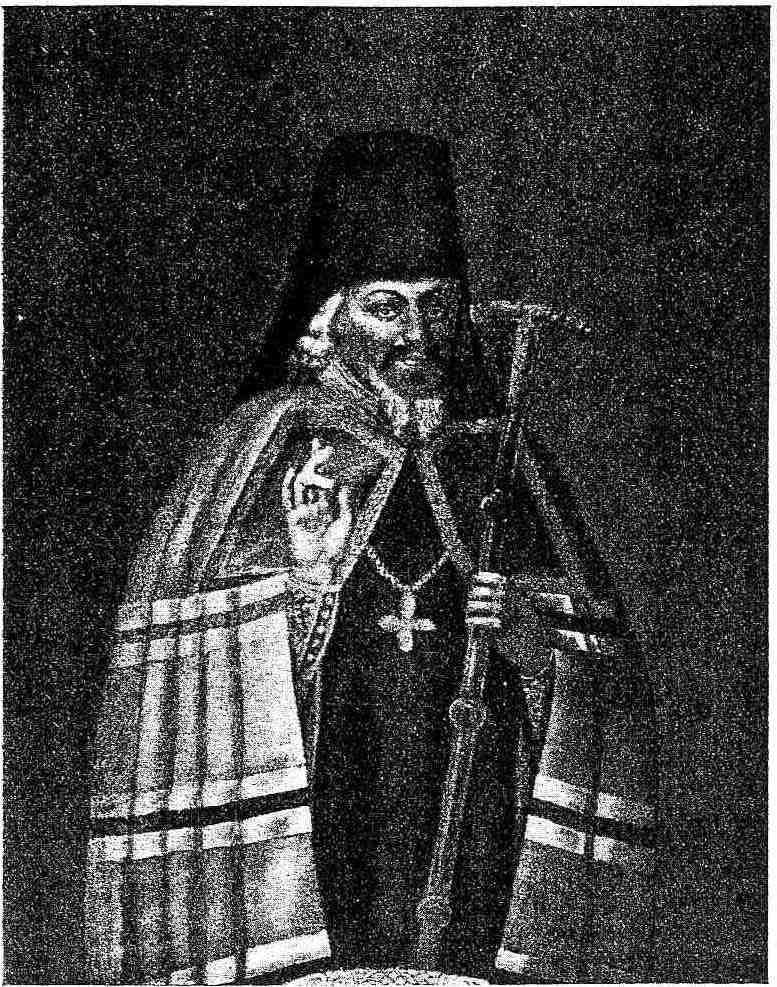 Portrait of Simon (Todorsky).